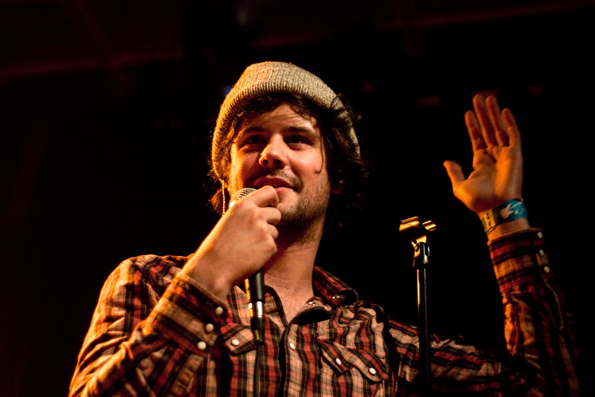 Passion Pit at the Mezzanine (San Francisco, California)